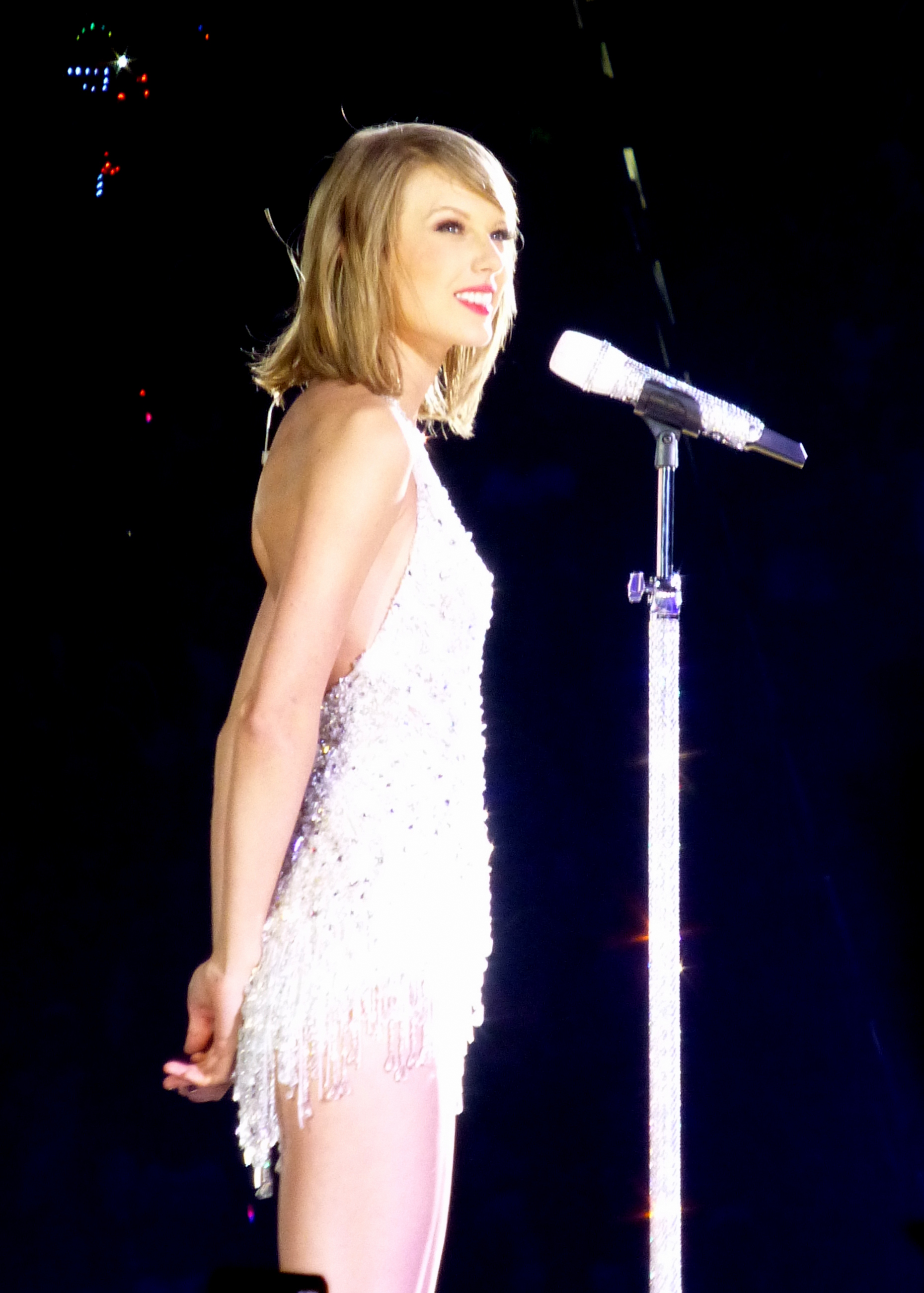 Taylor Swift 1989 Tour at Ford Field in Detroit, 5/30/15